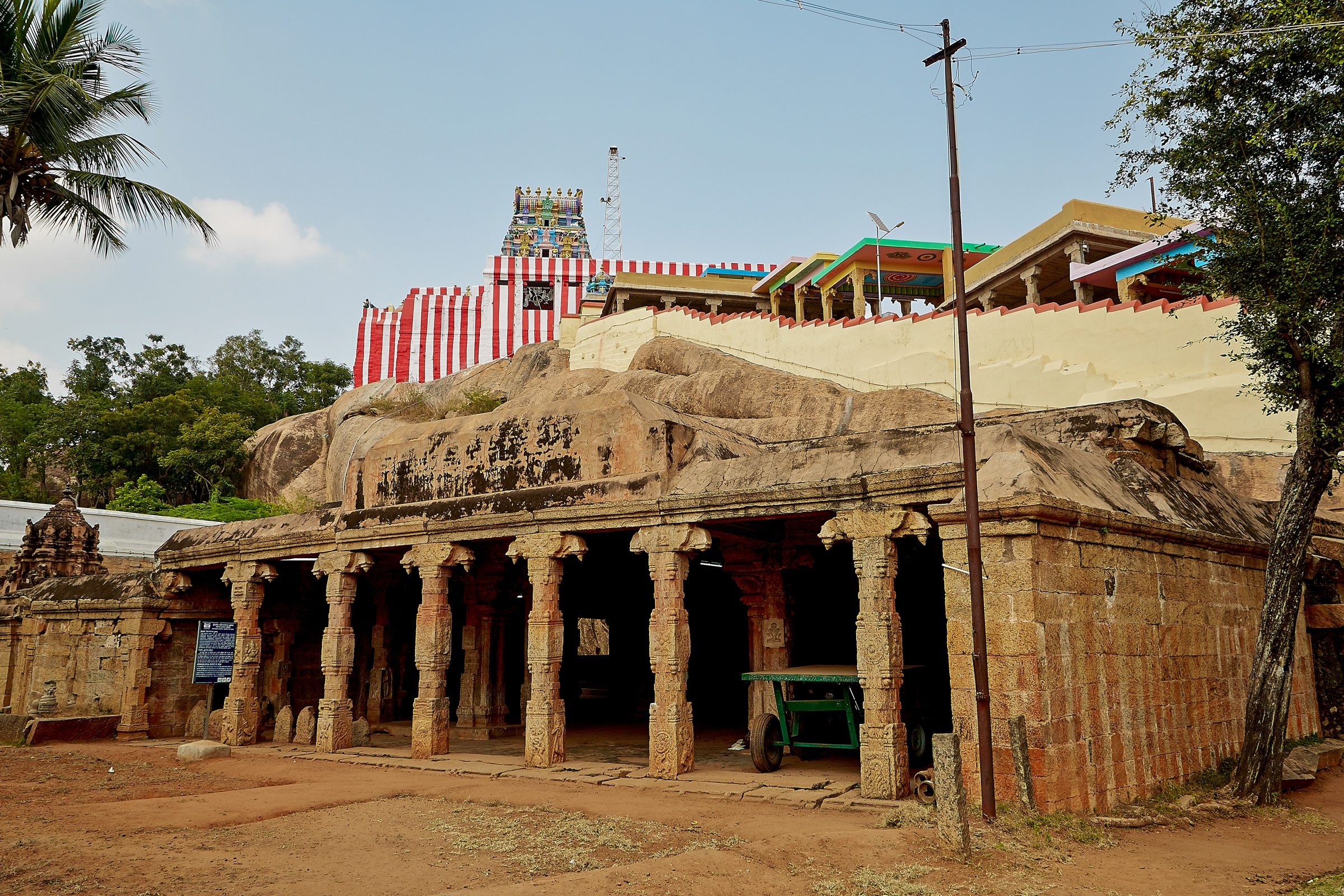 Rock cut Temple at the foot of the hill-Kunnakudi-Sivagangai District